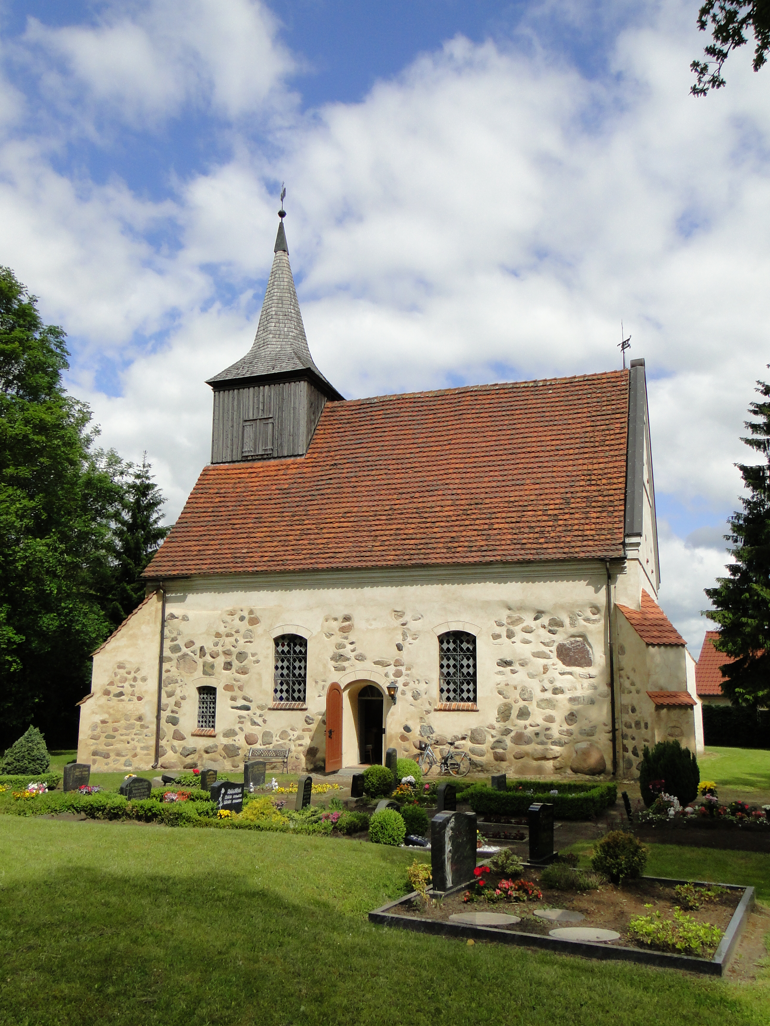 Church in Bülow, district Ludwigslust-Parchim, Mecklenburg-Vorpommern, Germany